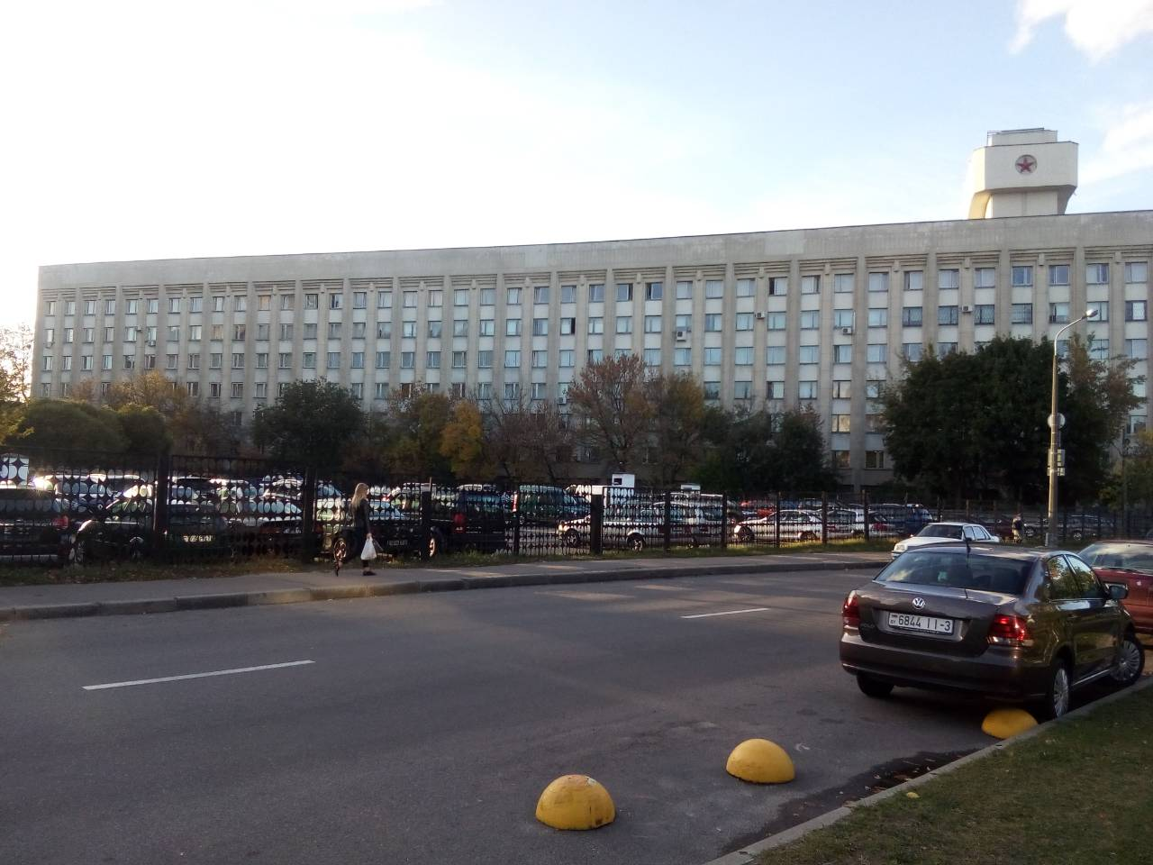 Faculty of General Staff of the Armed Forces at the Military Academy of the Republic of Belarus with a parking lot. Minsk, 4 Slavinskaha Street. 27 September 2018.